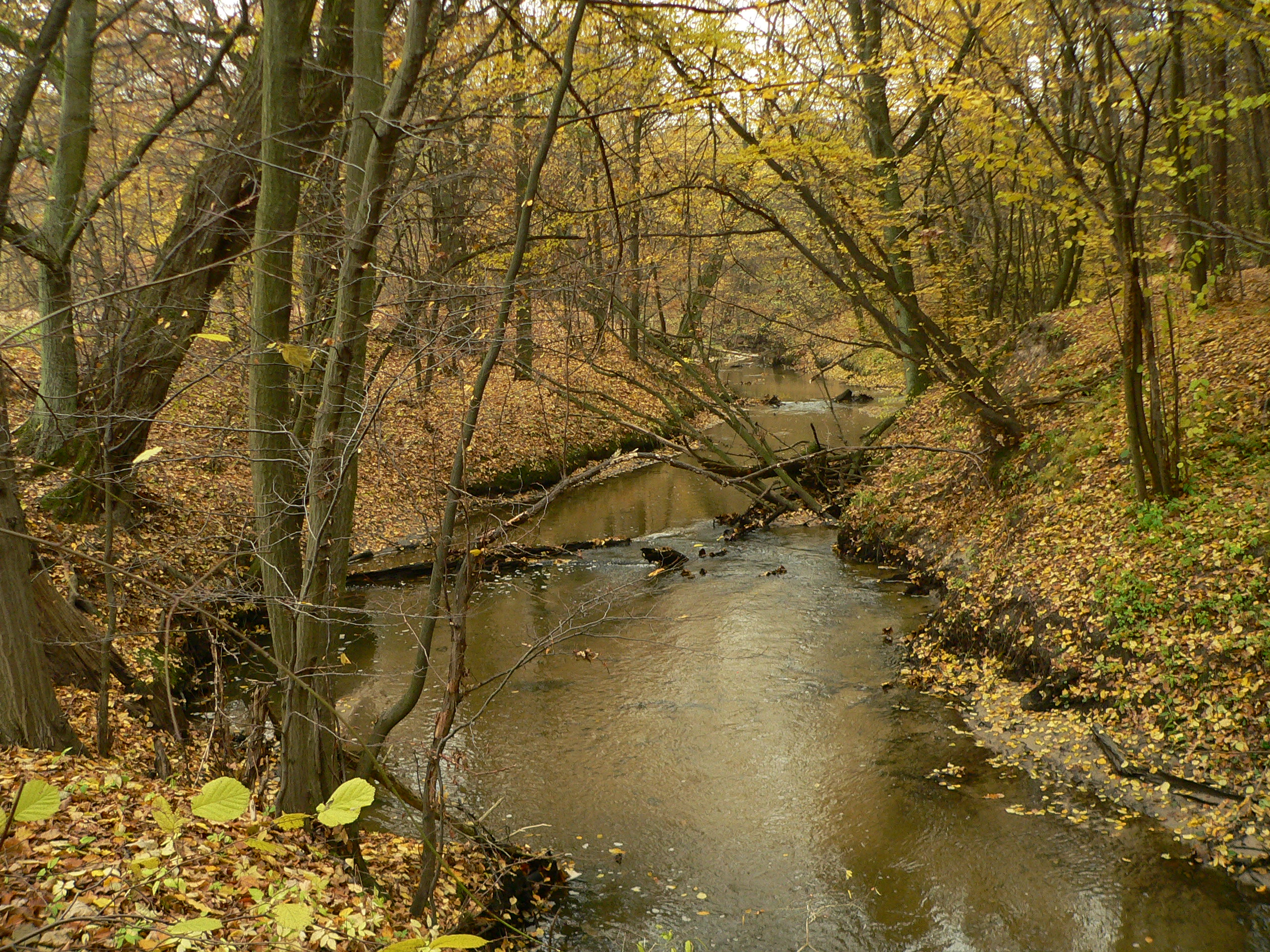 Mienia river near Wiązowna, Otwock County, Poland.